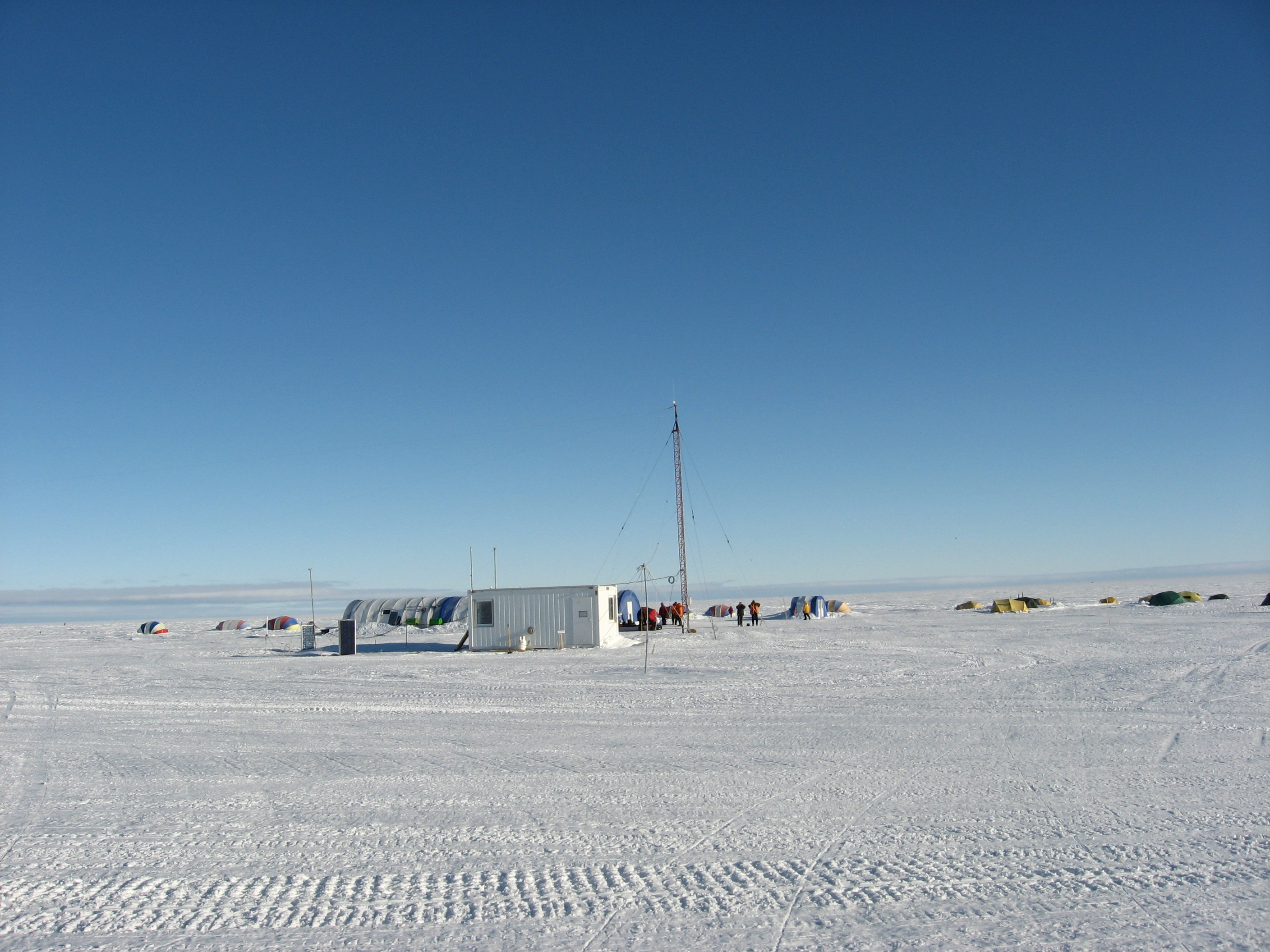 Patriot Hills Base Camp in Antarctica. Taken by Richard Laronde on 1/11/2007.